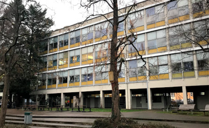 HoGy Goeppingen